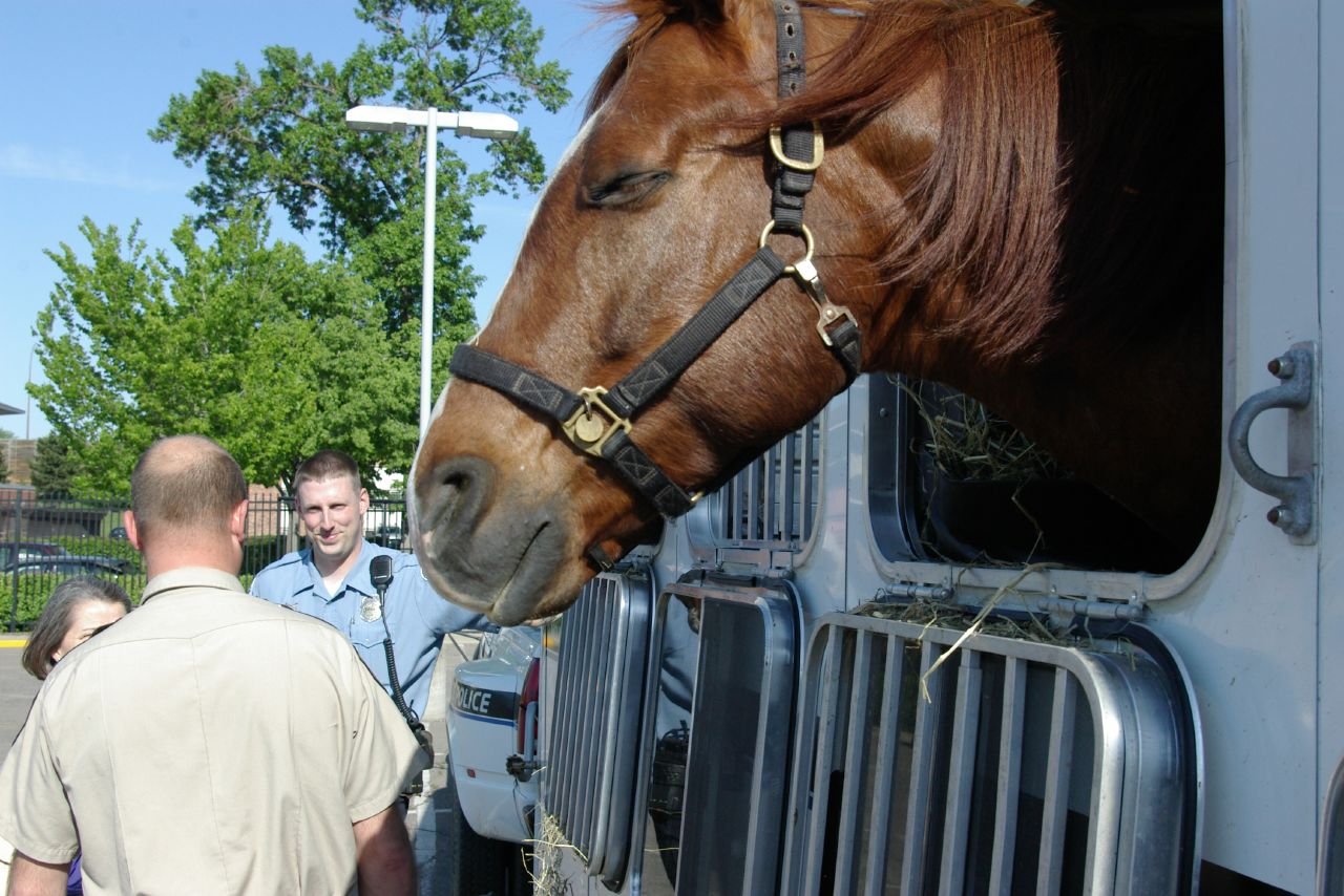 May 17, 2007 - Minneapolis, Minnesota